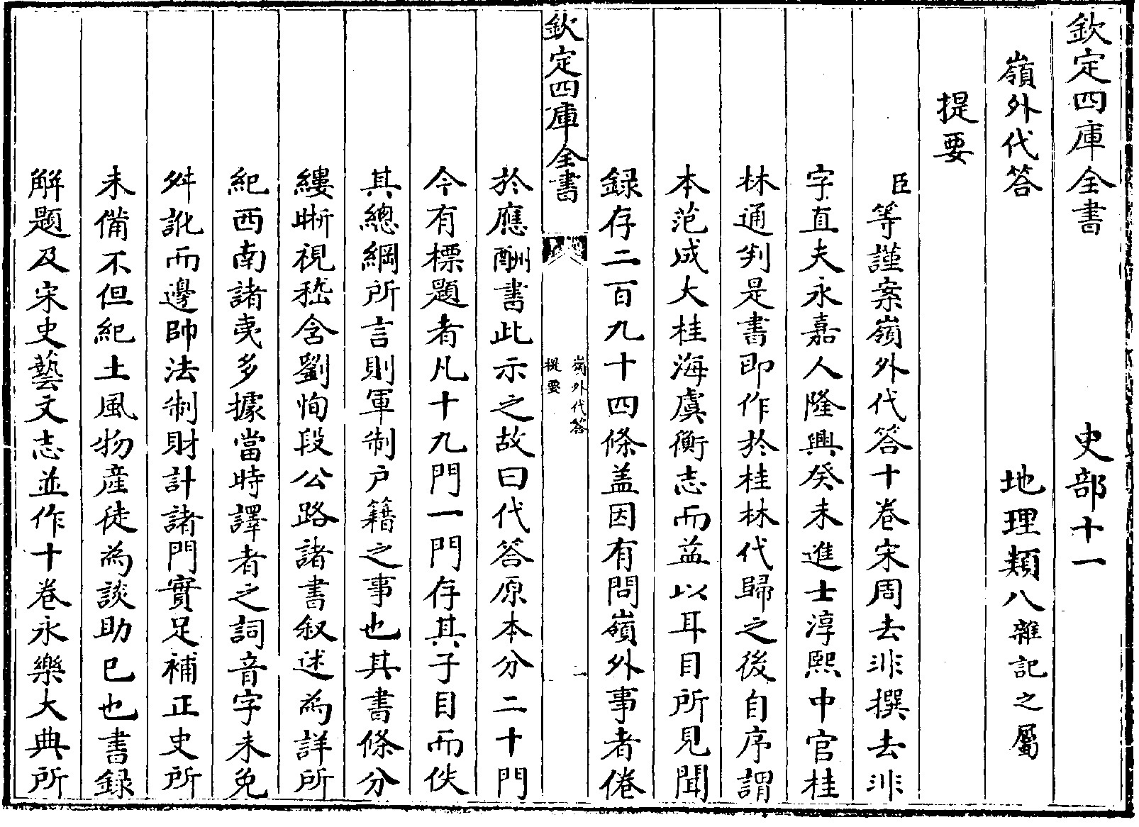 Introduction to the 12th century work Lingwai Daida written by Zhou Qufei, included in the 18th century work Siku Quanshu